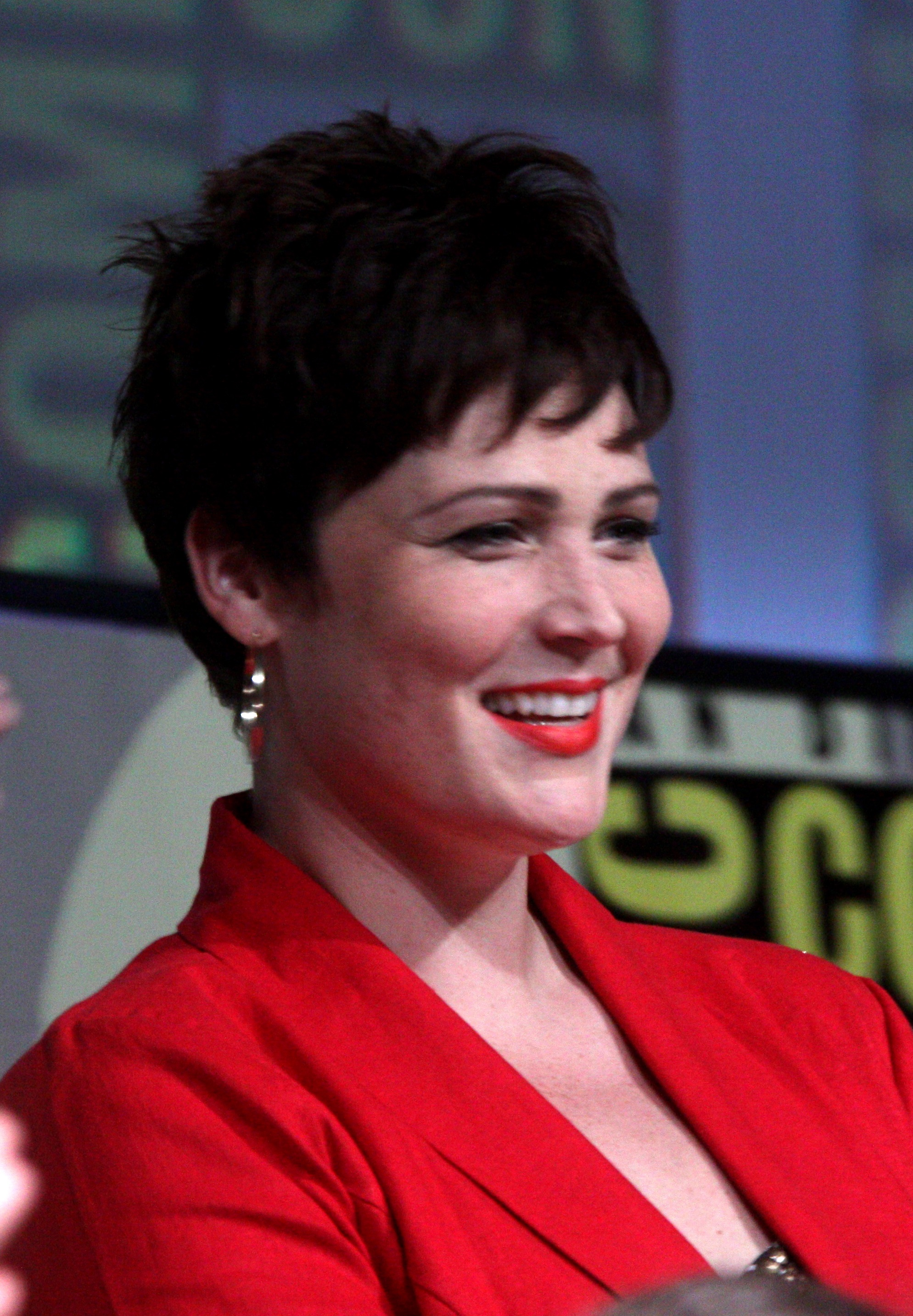 Lisa Howard, American actress who appears in The Twilight Saga: Breaking Dawn Part 2 speaking at the 2012 San Diego Comic-Con International in San Diego, California. (Note: This is not Lisa Howard.)